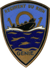 101st Regiment regimental badge engineering.